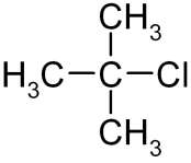 Chemical structure of 2-chloro-2-methylpropane